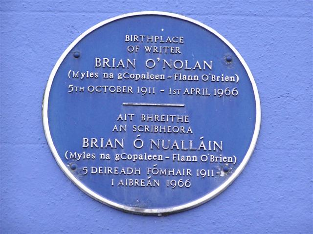 Plaque, Brian O'Nolan. It is located here 1082587.